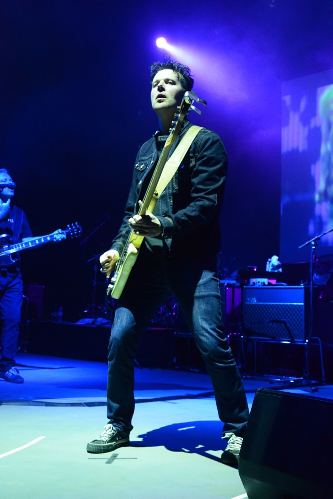 Tom Chapman, bass player with New Order, performing on stage with the band.